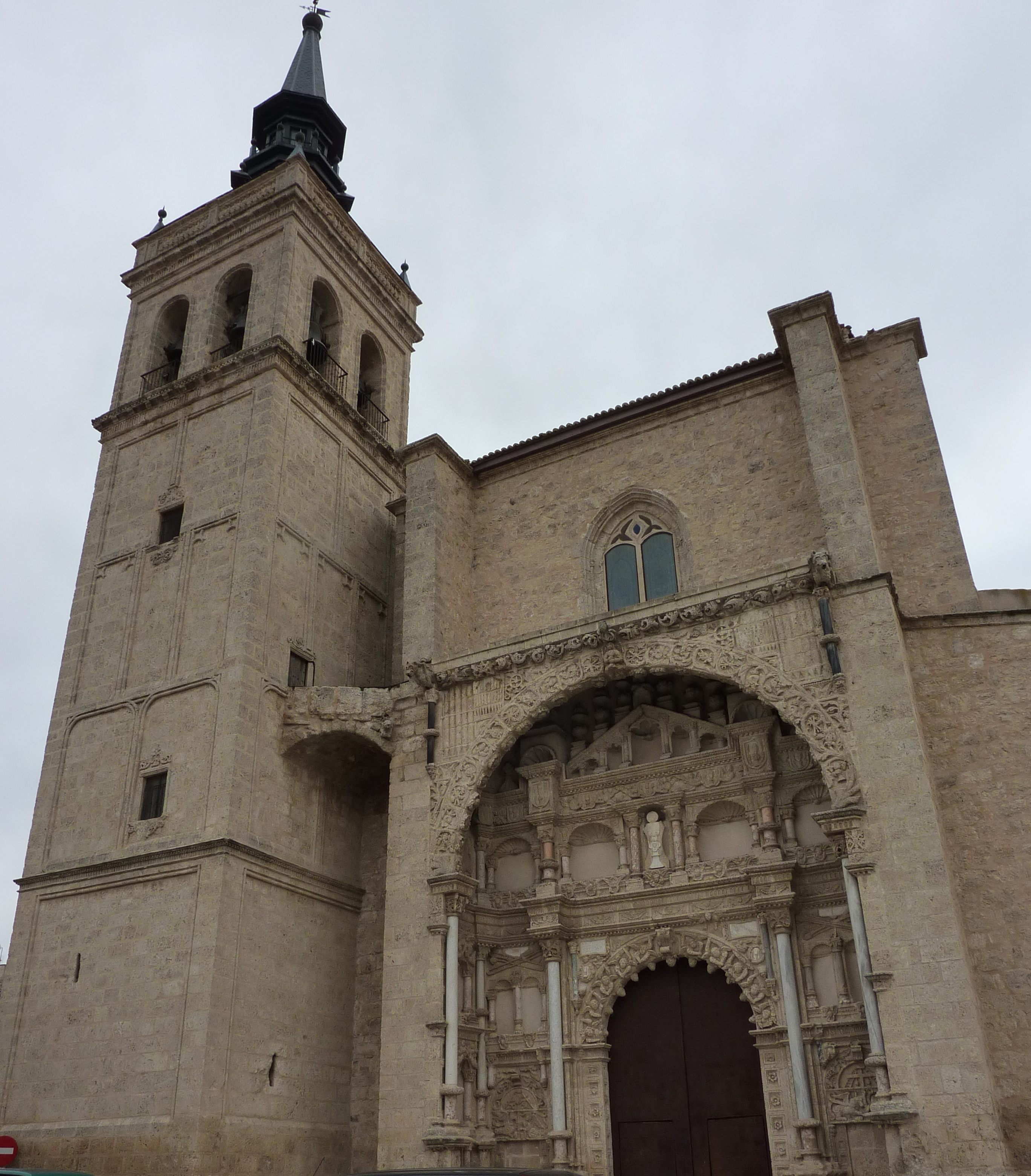 Colegiata de Torrijos